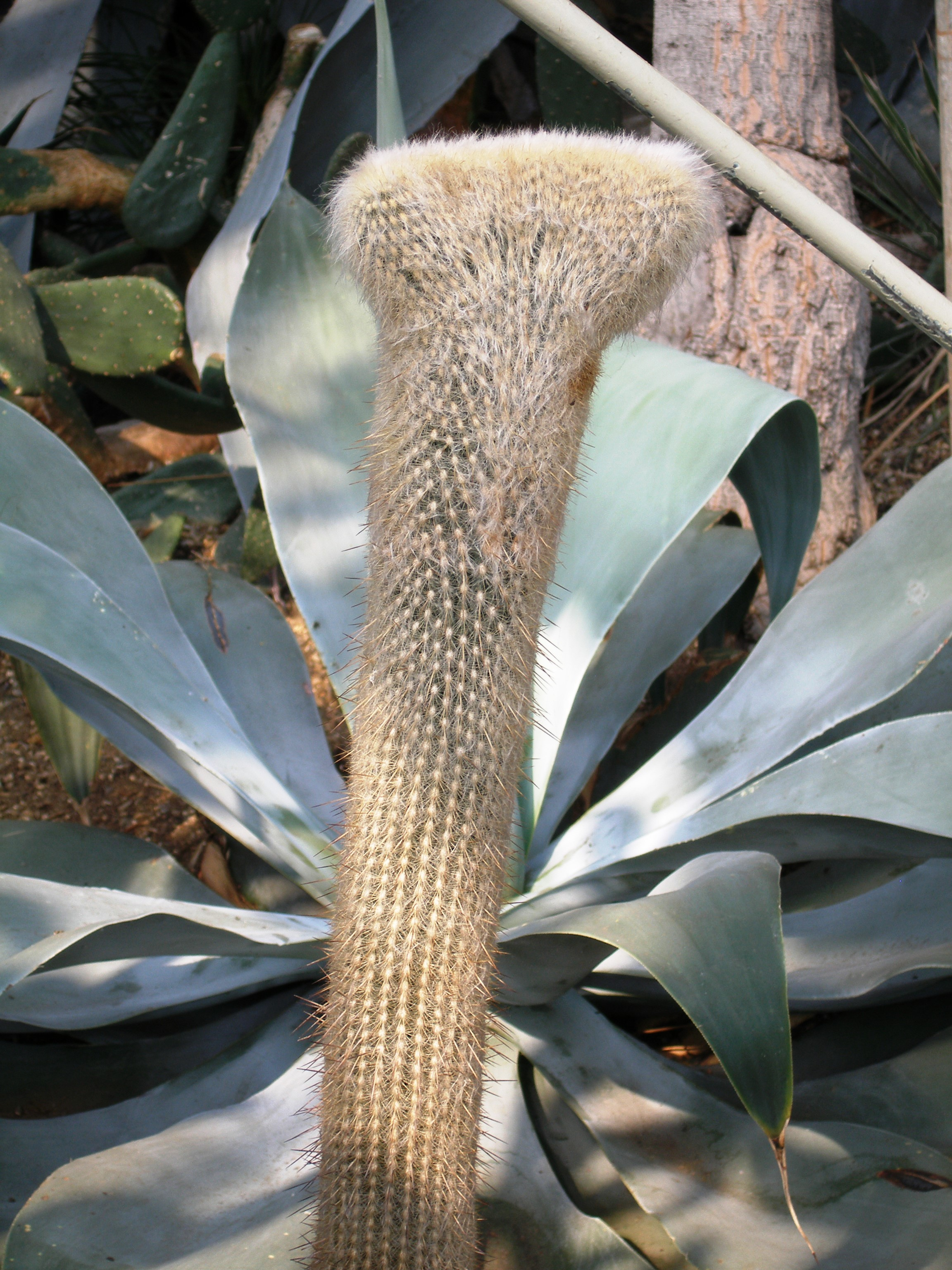 Specimen in cultivation at the Royal Botanic Gardens, Kew, United Kingdom.